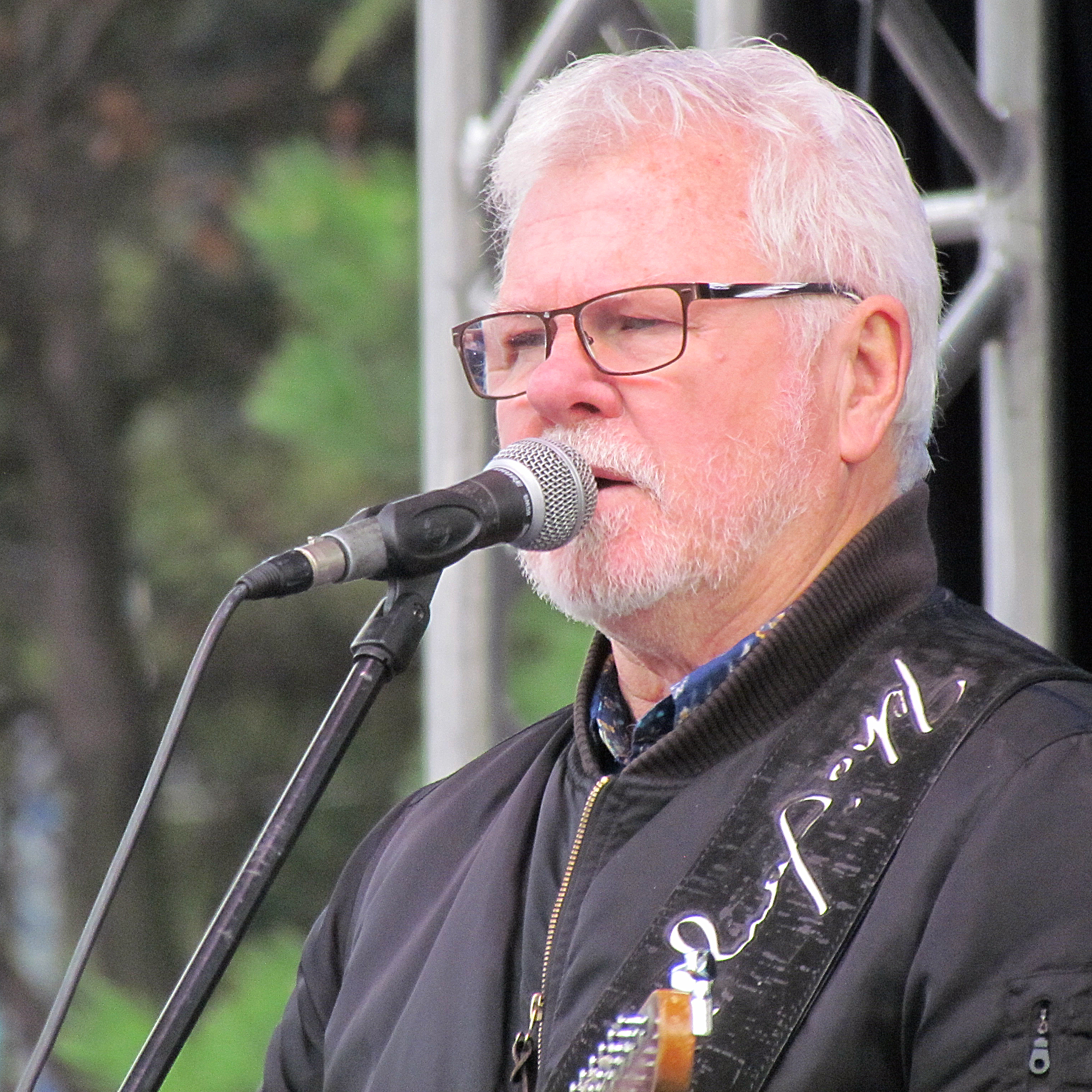 Dragi Jelic member of YU grupa